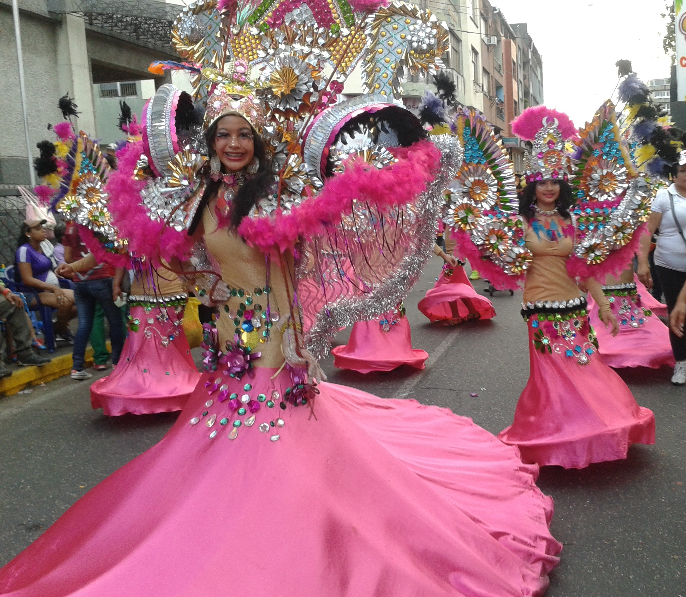 Chica en Comparsa, Carnavales de Maturin, estado Monagas